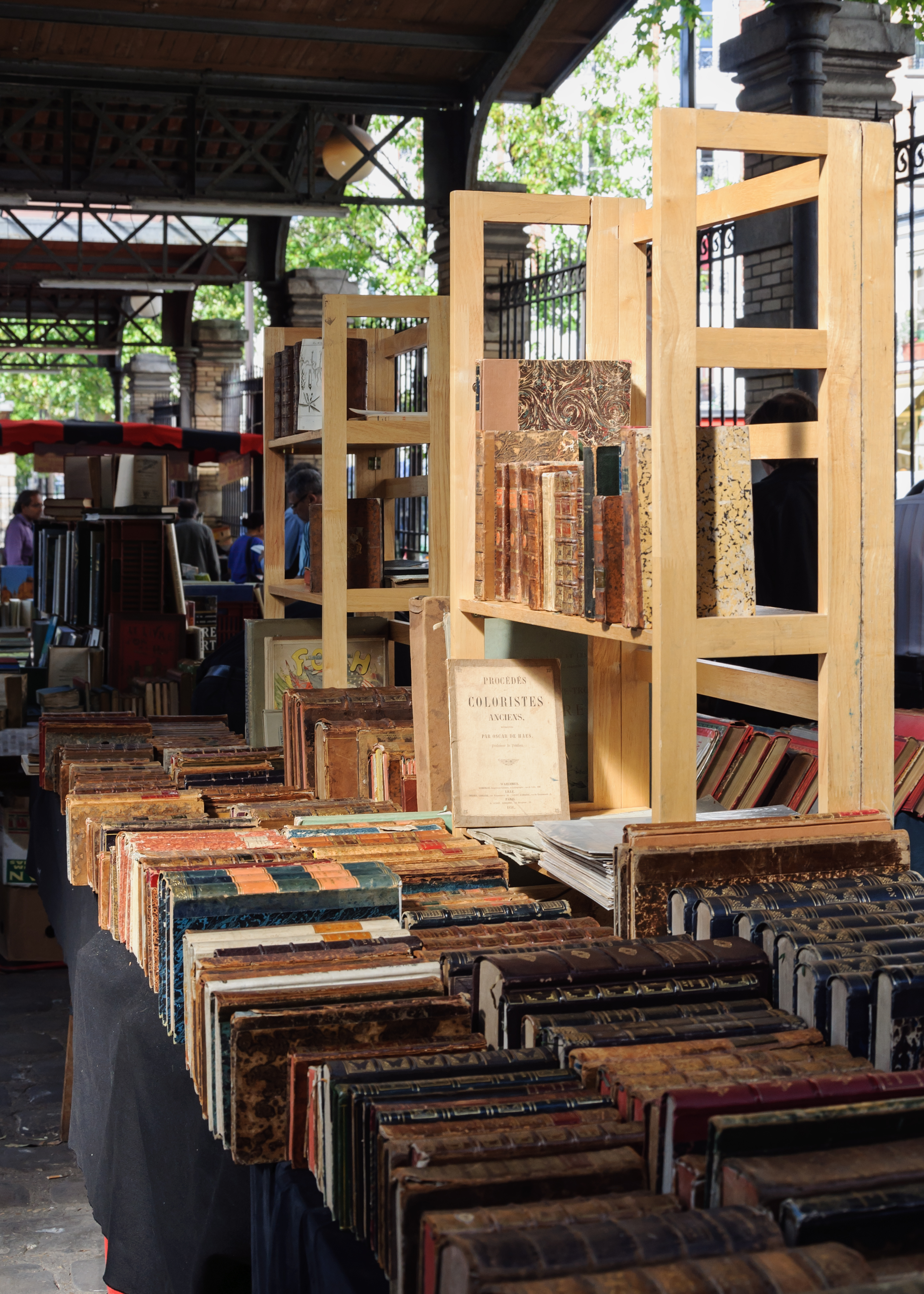 In the antique and secondhand book market at Georges-Brassens Park, in the 15th arrondissement of Paris, France.